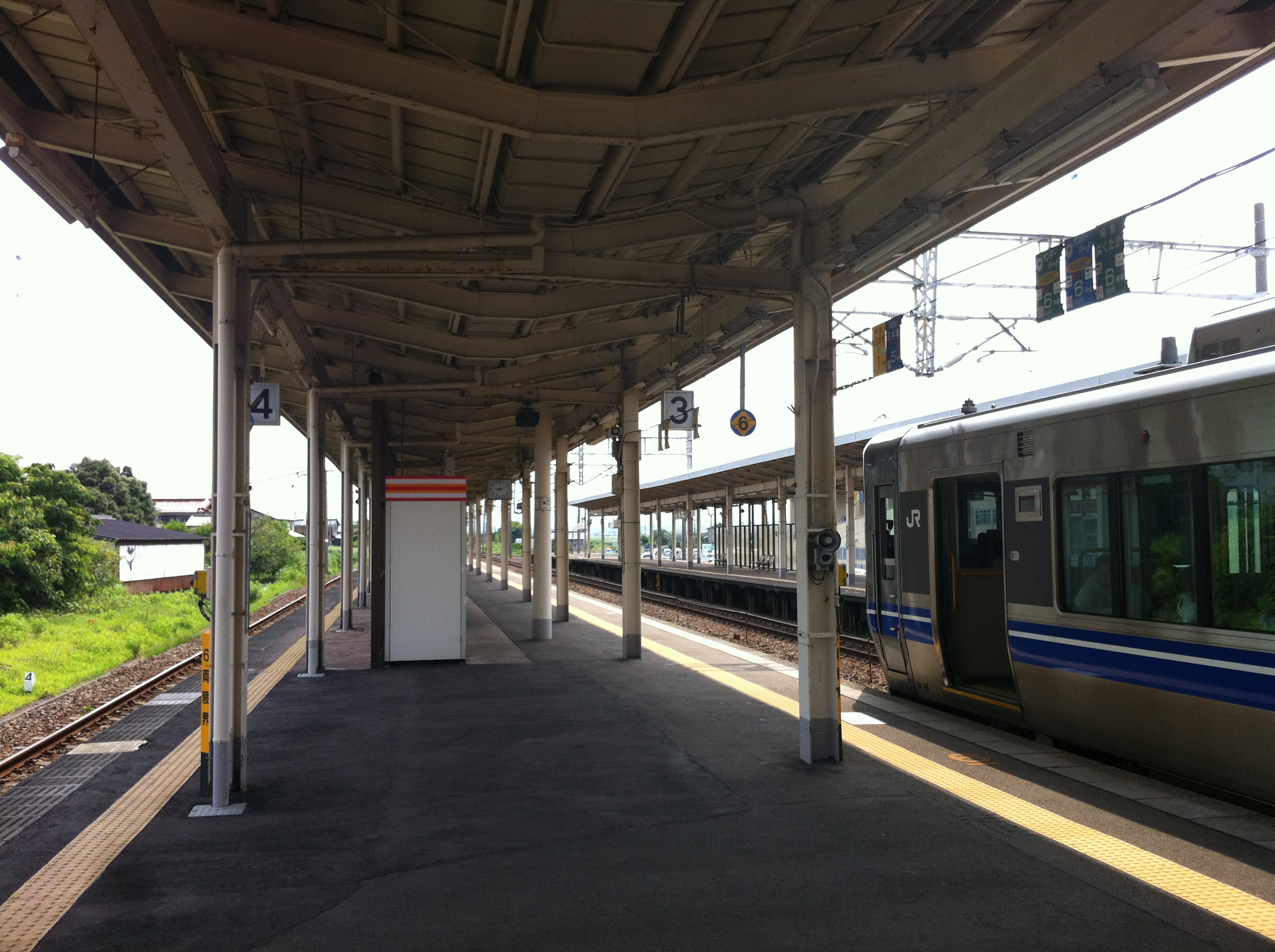 加賀温泉駅のホーム (Kaga-Onsen Station platform)